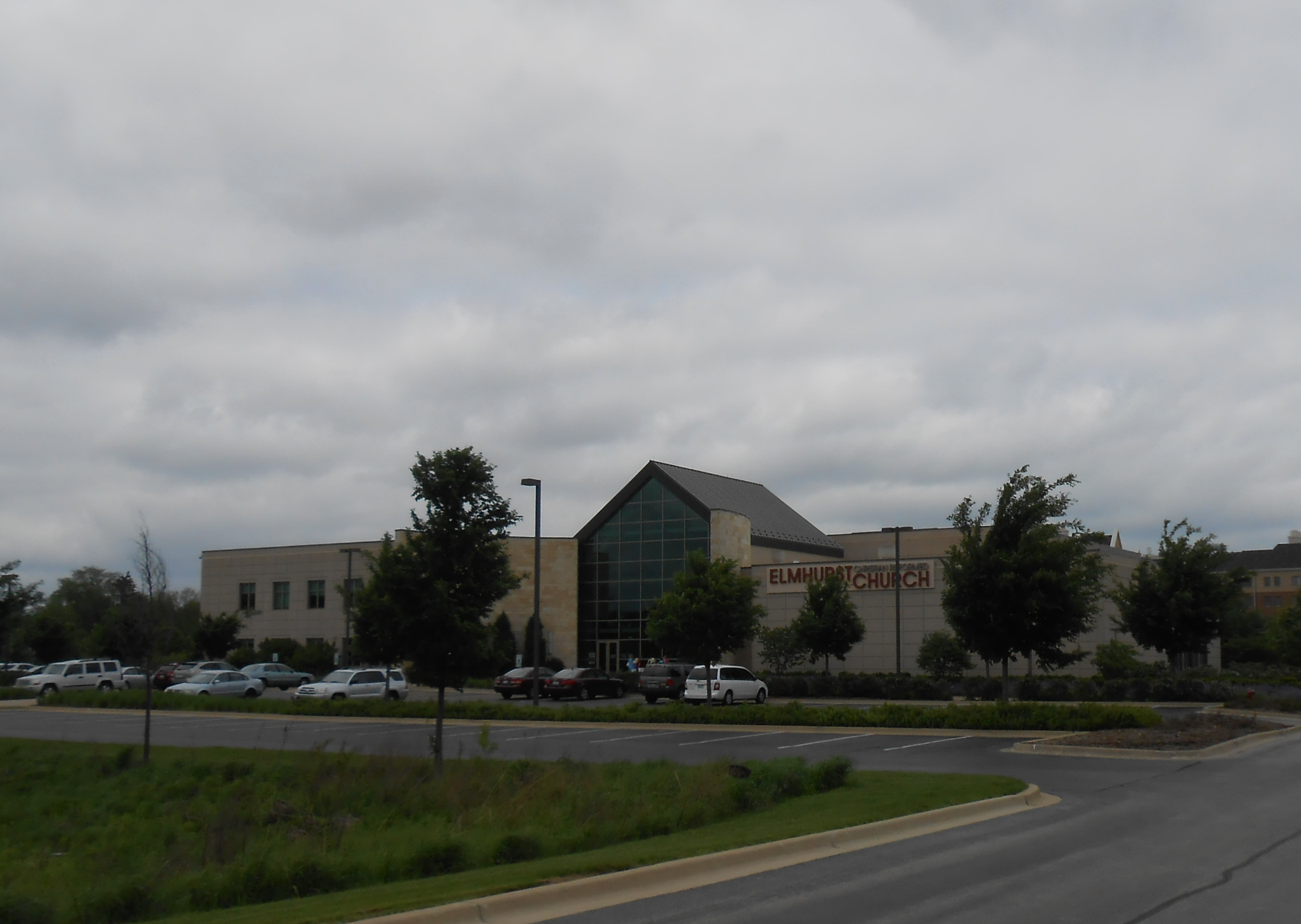 The current home of Elmhurst Christian Reformed Church in Elmhurst, Illinois. It has used this building since 2009 when it moved from a different location in the city.